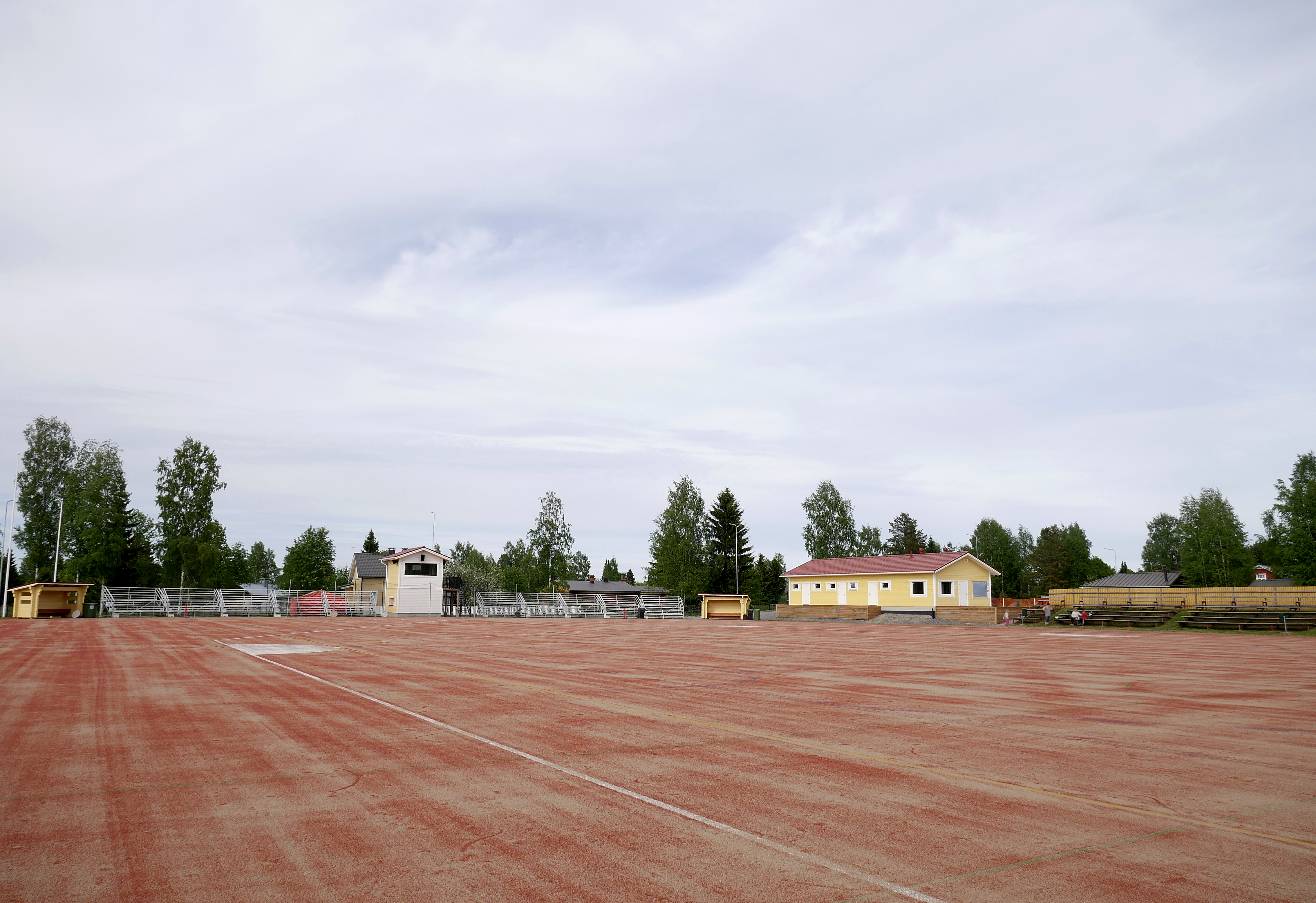 Pesäpallo field in Lappajärvi.